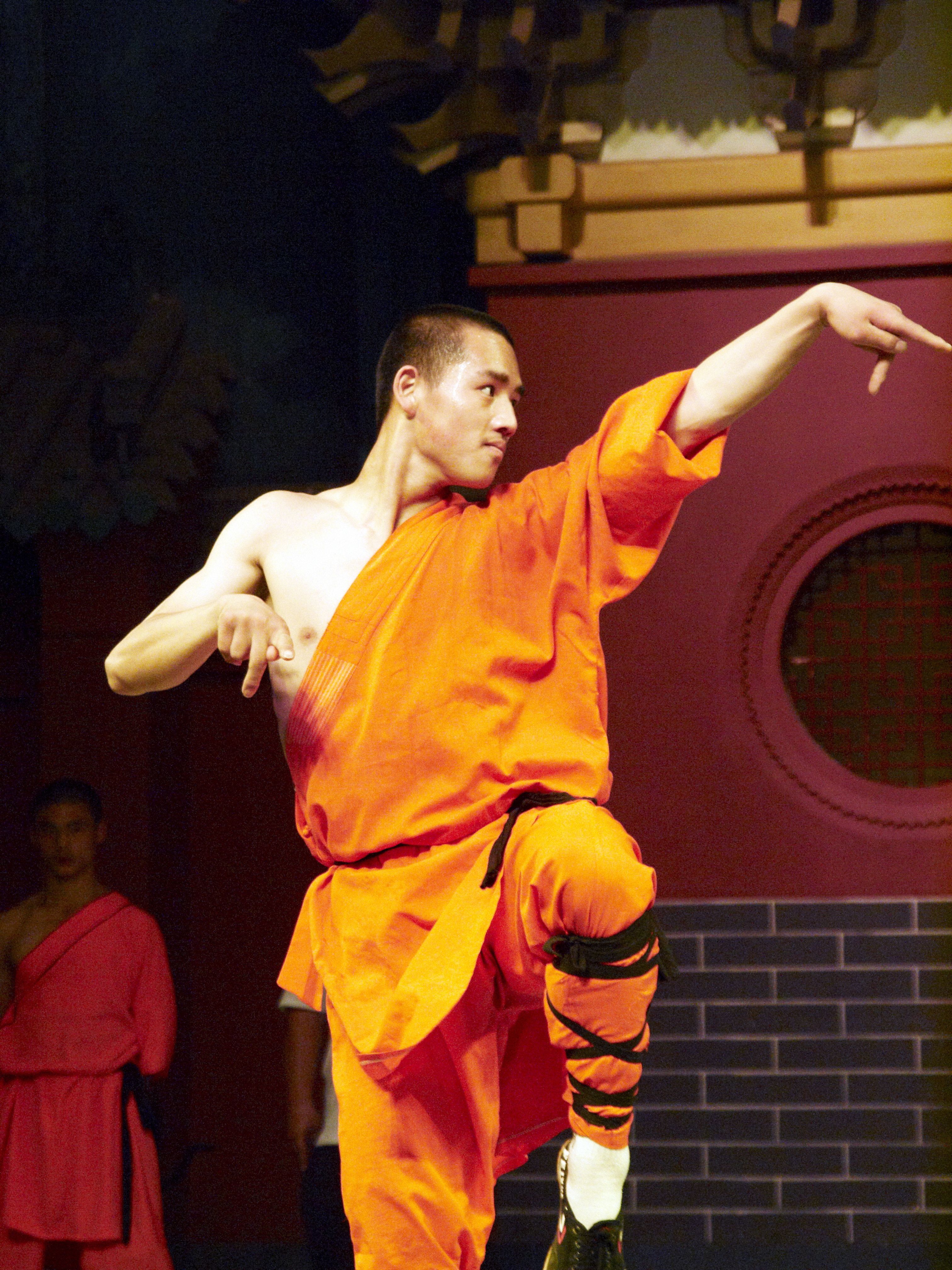 A shaolin student doing a kung fu moves. Shaolin Kung Fu is more than just a martial art.